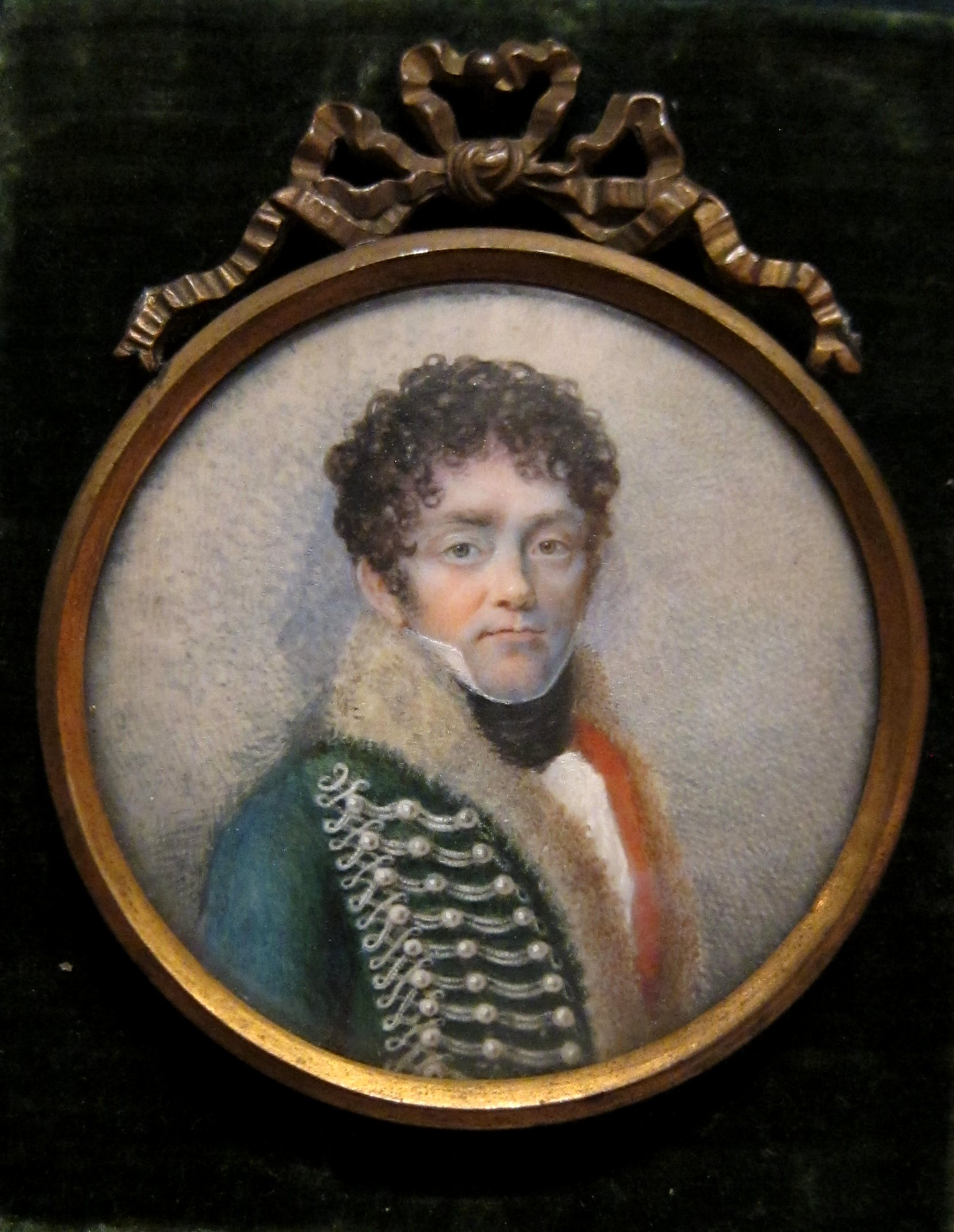 Portrait of Joachim Murat (?)